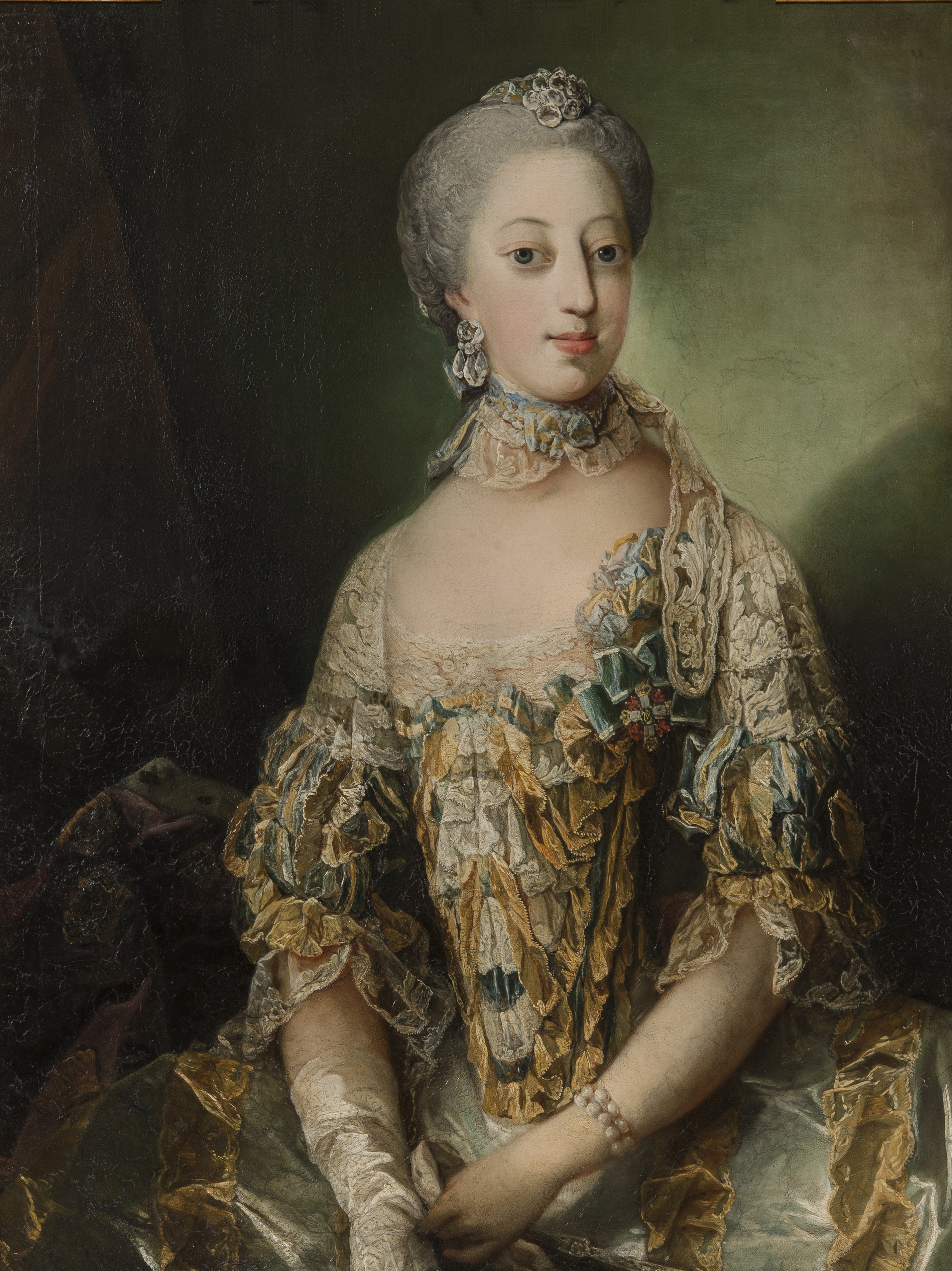 Sophia Magdelena of Denmark, Queen of Sweden (1743–1813)